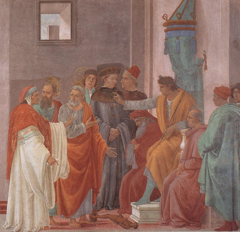 Left side of the fresco by Filippino Lippi in Cappella Brancacci, Santa Maria del Carmine, Florence, Itlay. This fresco depicts the two last episodes from the story of the life of Peter: to the right we see him, with St Paul, in his dispute with Simon Magus in front of the Emperor